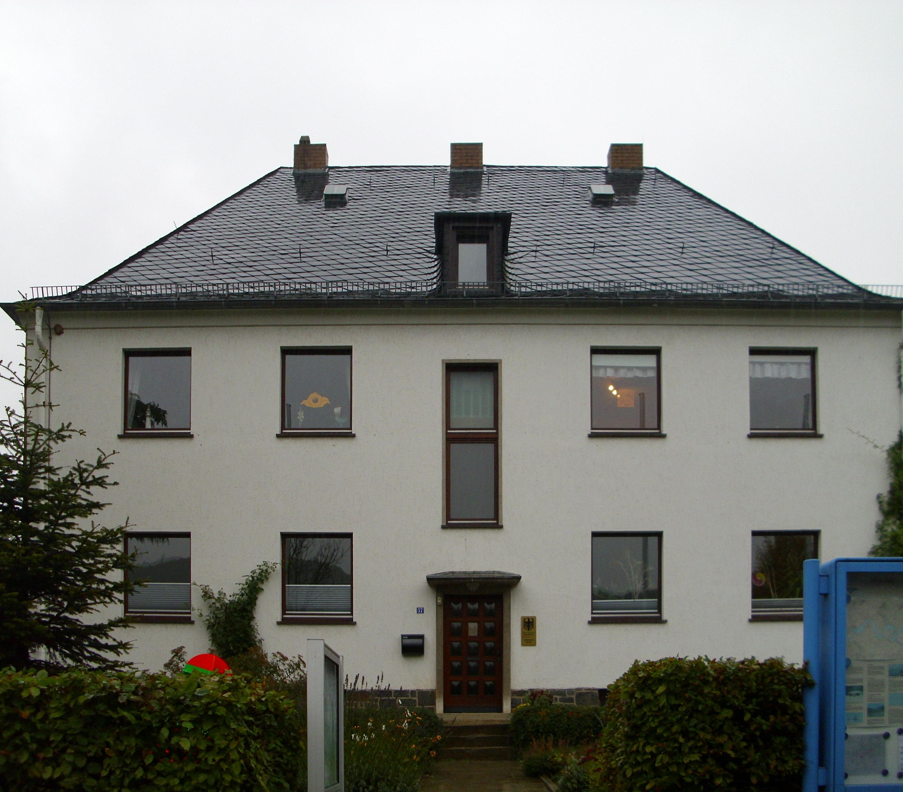 Wasser- und Schifffahrtsamt Hann. Münden, Edertal, Germany check usage